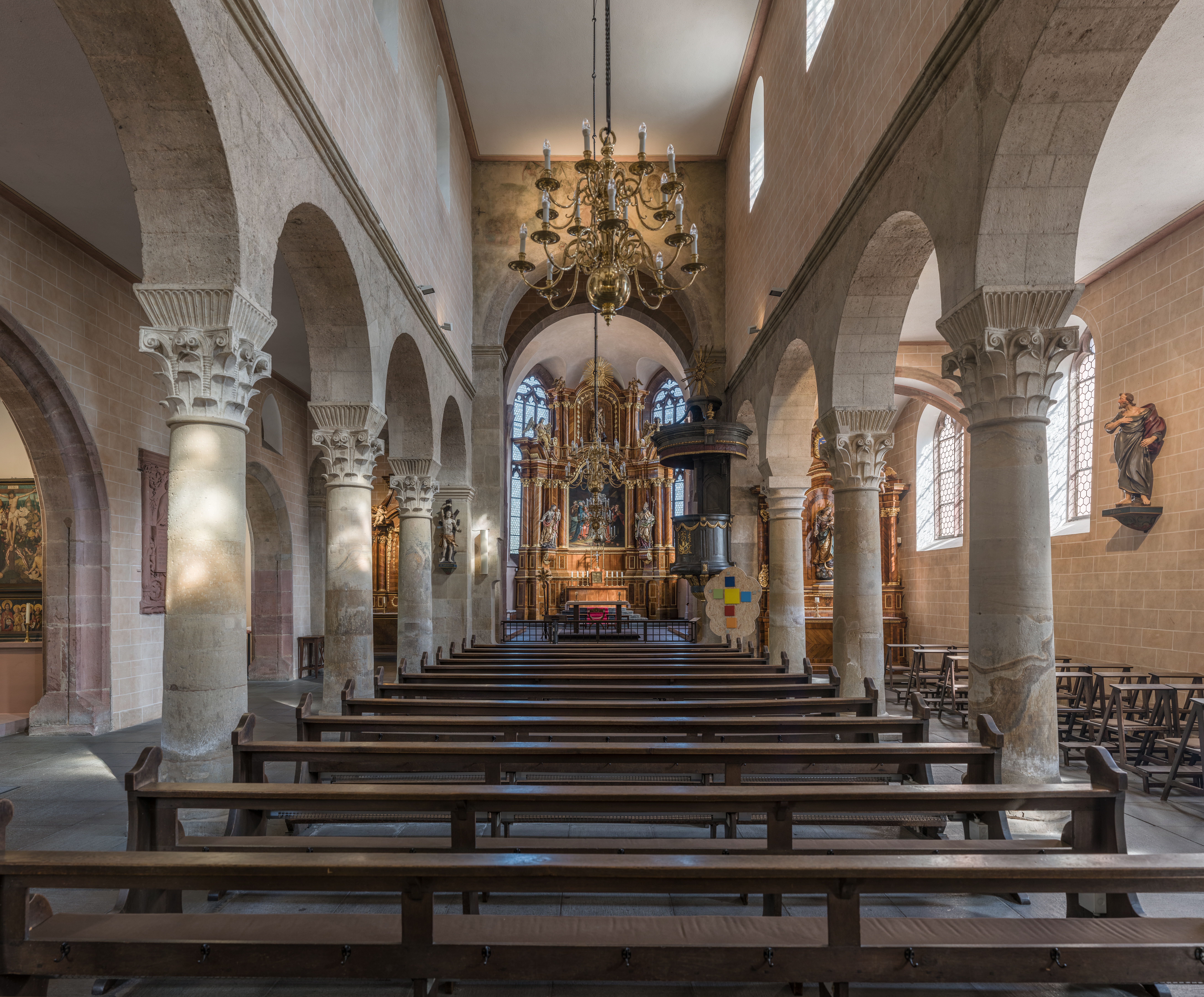 A nave view of Justinuskirche, Frankfurt-Höchst